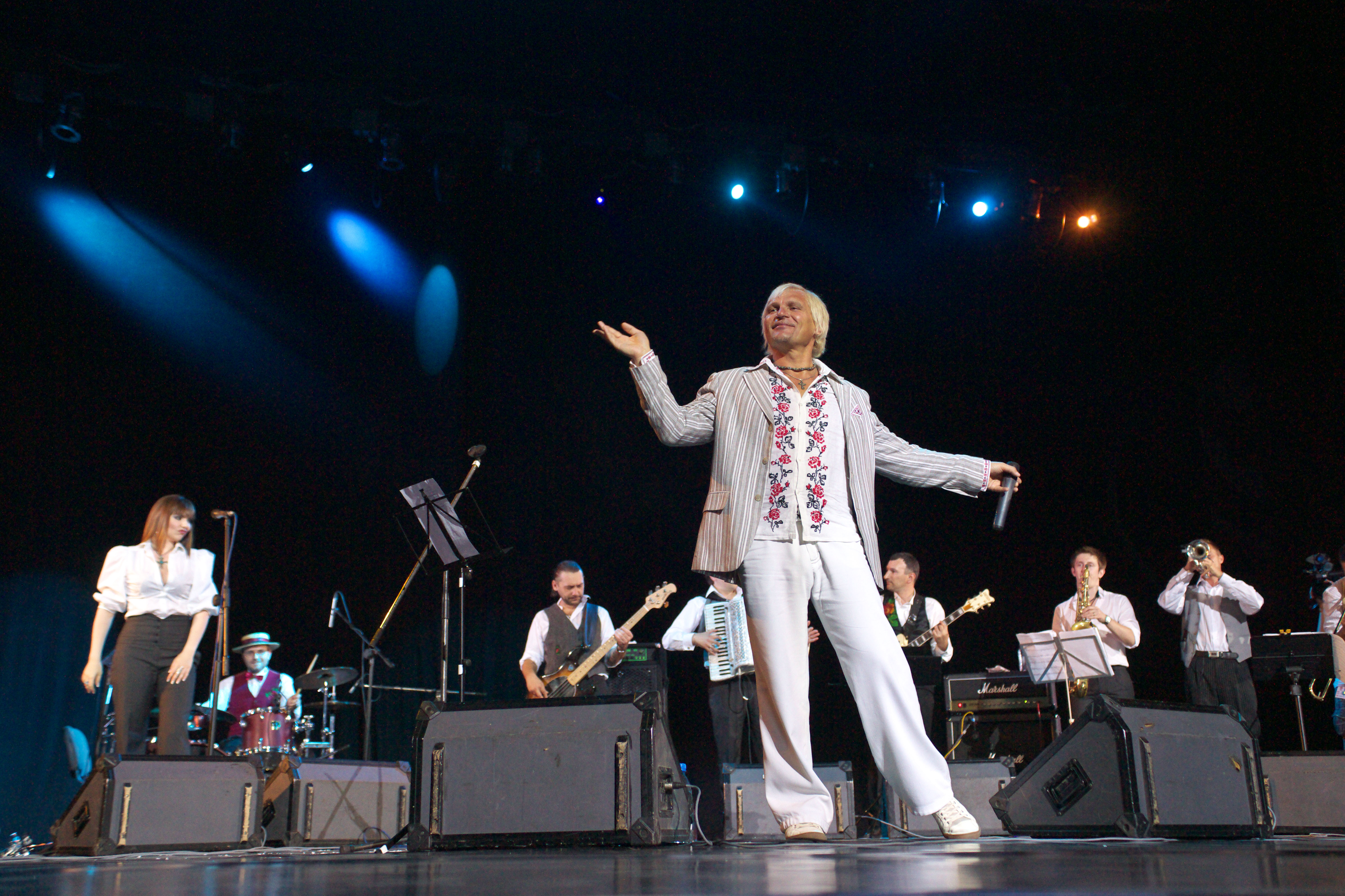 Oleh Skrypka, Ukrainian musician,at "Slavonic Bazaar in Vitebsk"